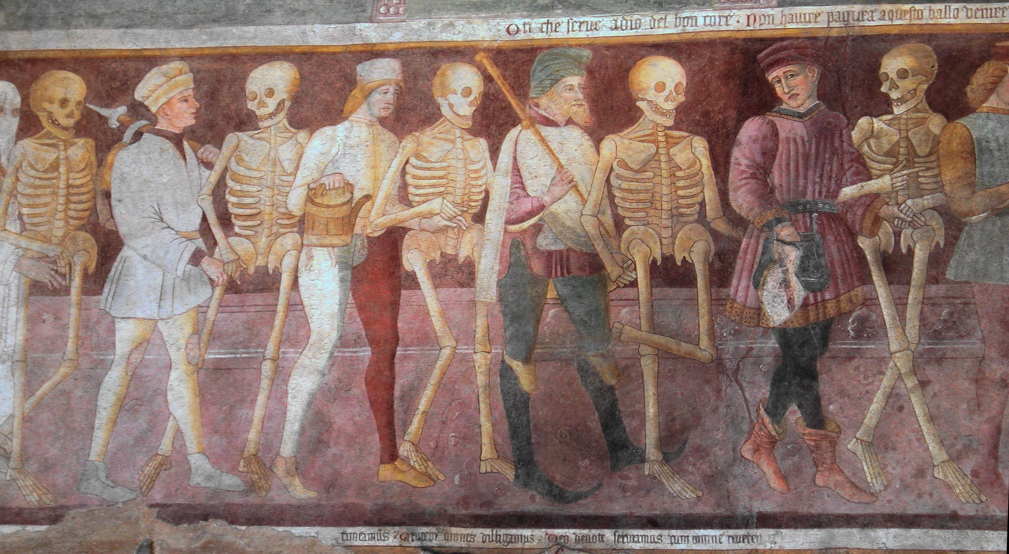 Danza macabra, detail Clusone, Bergamo, Italia Made by me, december 2005 Fresco on the external wall of the church of Disciplini